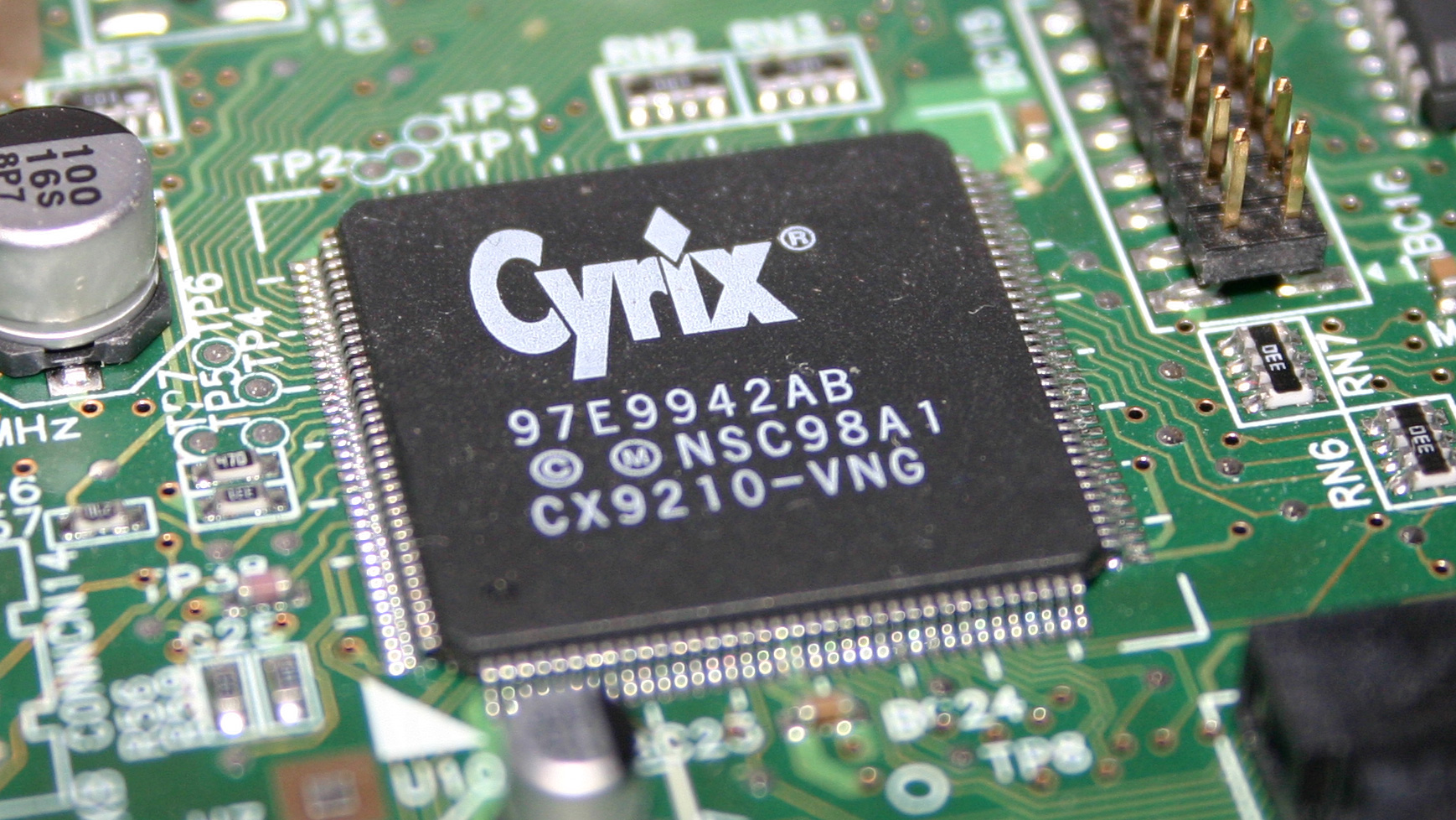 A Cyrix DSTN controller in 144-pin LQFP package.